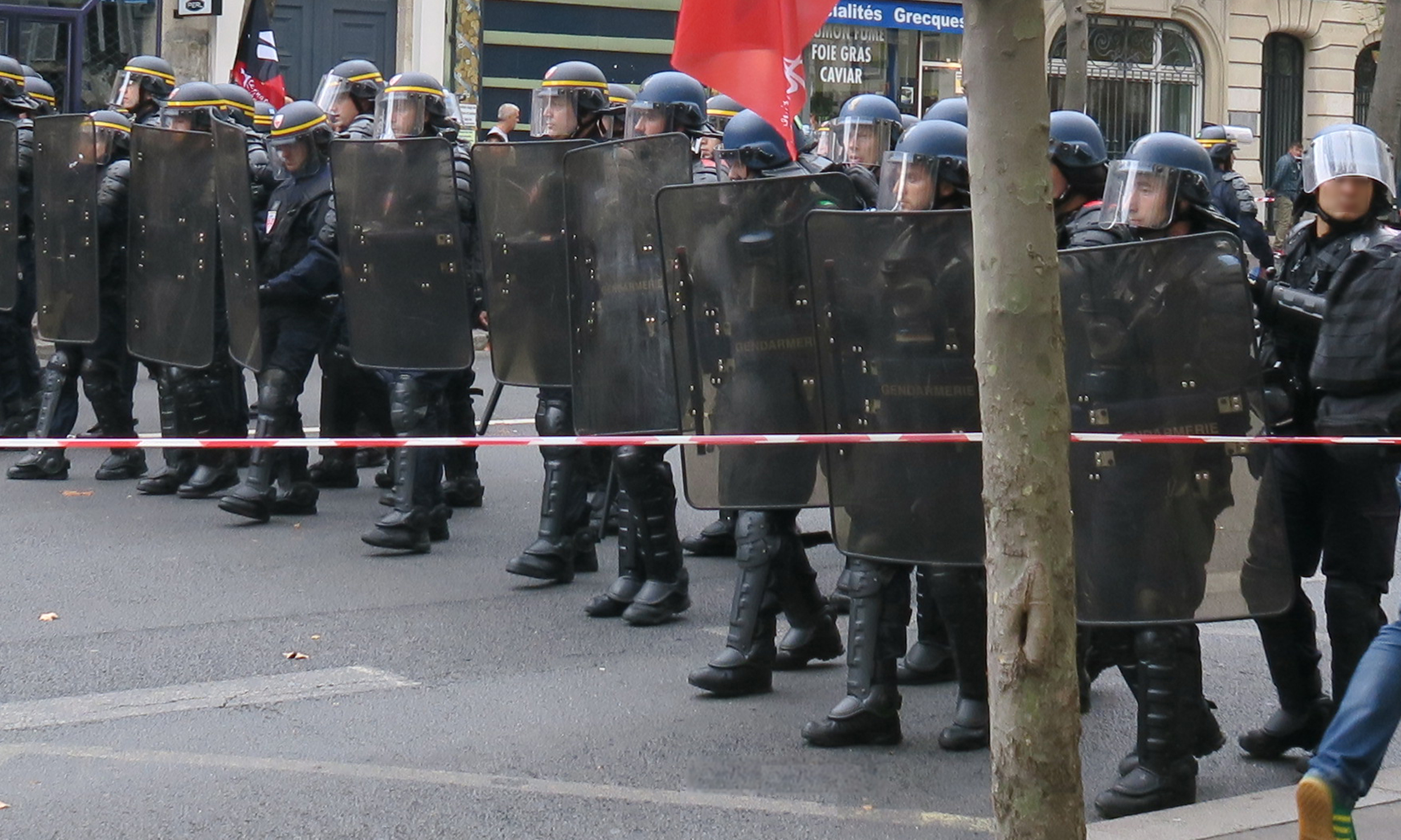 French CRS (left) and gendarmes mobiles (right) during a demonstration in Paris - September 2016